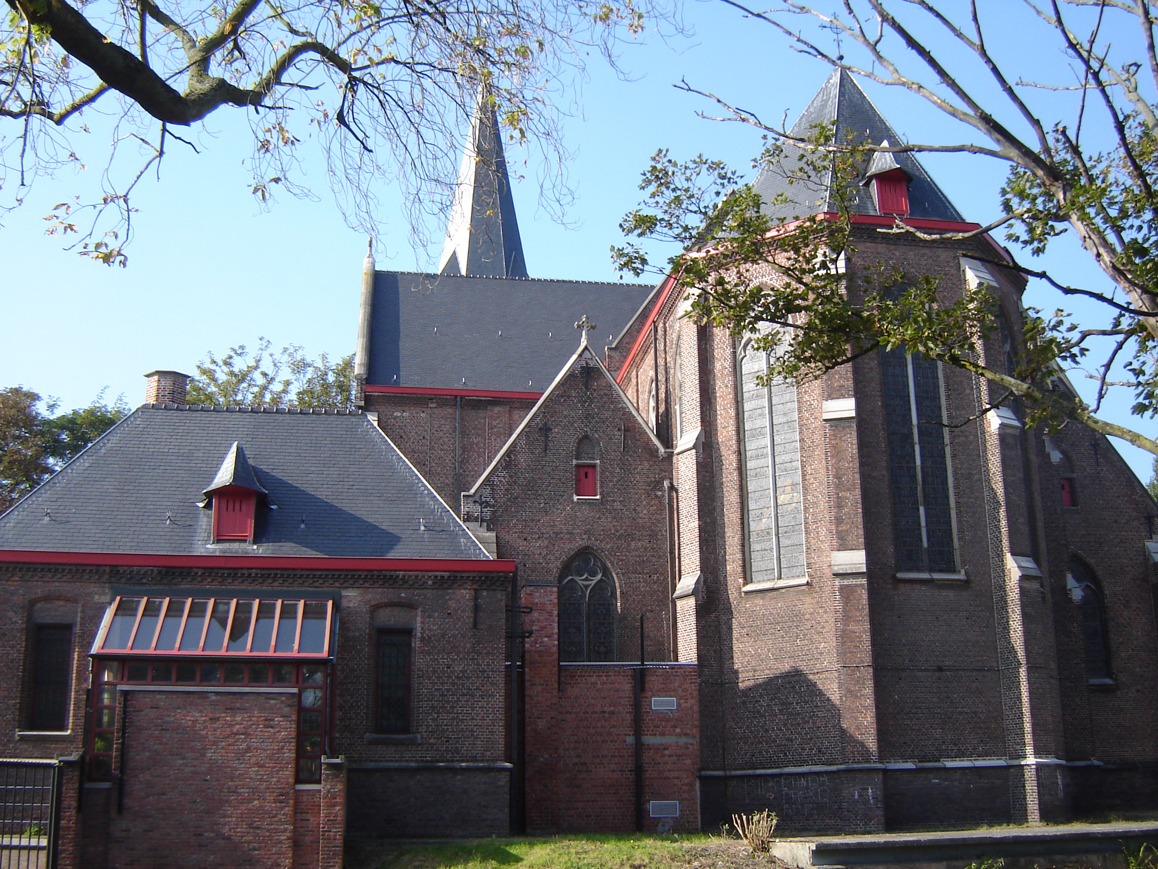 Church of Saint Vincent in Gent. Gent, East Flanders, Belgium.